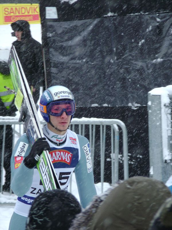 ski jumper Robert Kranjec from Slovenia during the World Cup in Zakopane on 27-1-2008